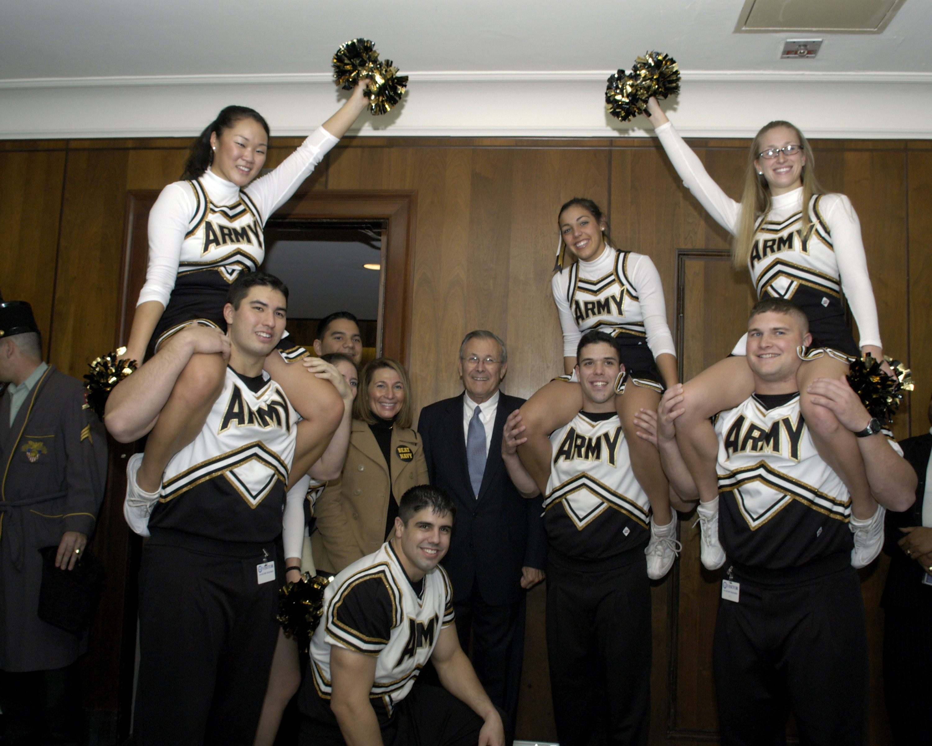 Secretary of Defense Donald H. Rumsfeld (center) is greeted outside his Pentagon office by the West Point Academy cheerleaders and band on Dec. 3. 2004. The cadets are promoting esprit de corps in the Pentagon for the upcoming Army/ Navy football game on Dec 4, 2004.